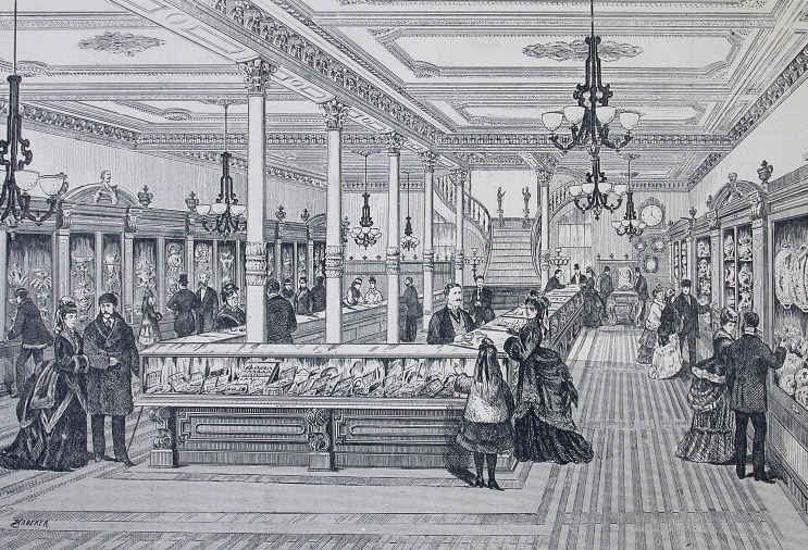 Interior View of Messrs. Savage, Lyman & Co's Jewelry and Silverware Establishment, St. James Street, Montreal, Canada. Henry Birks was a partner of this firm until 1877, when he departed to found his own jewellery firm.